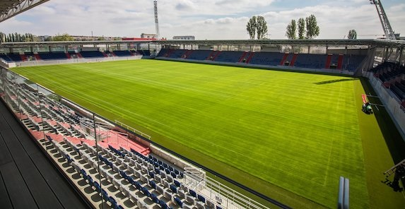 The photo shows the newly-built stadium of the Hungarian association football club Vasas SC.